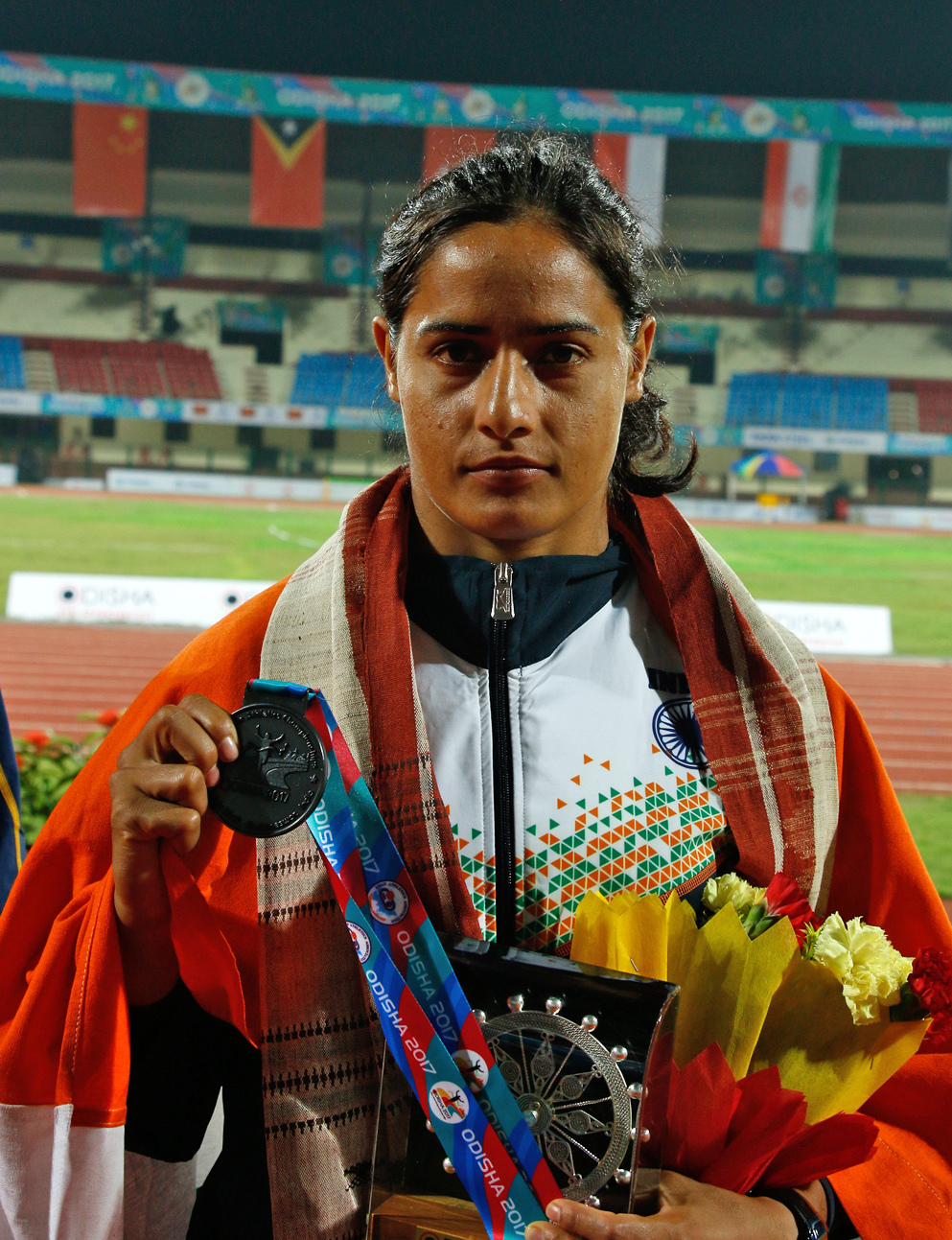 Athletes during 22nd Asian Athletics Championships in Bhubaneswar.